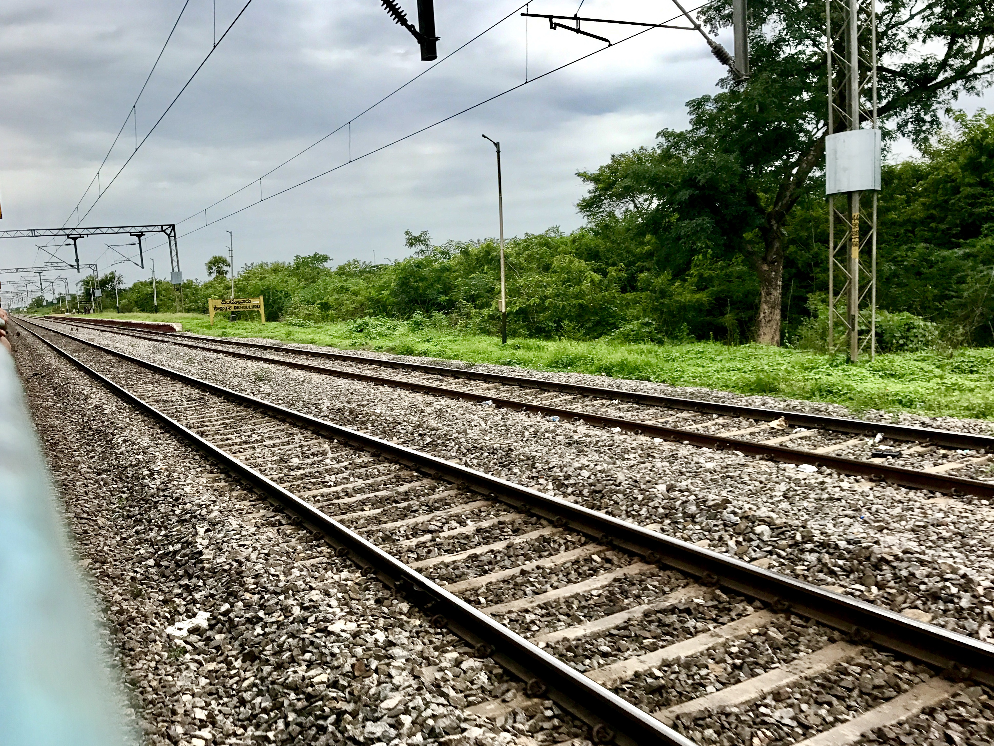 Denduluru railway station board